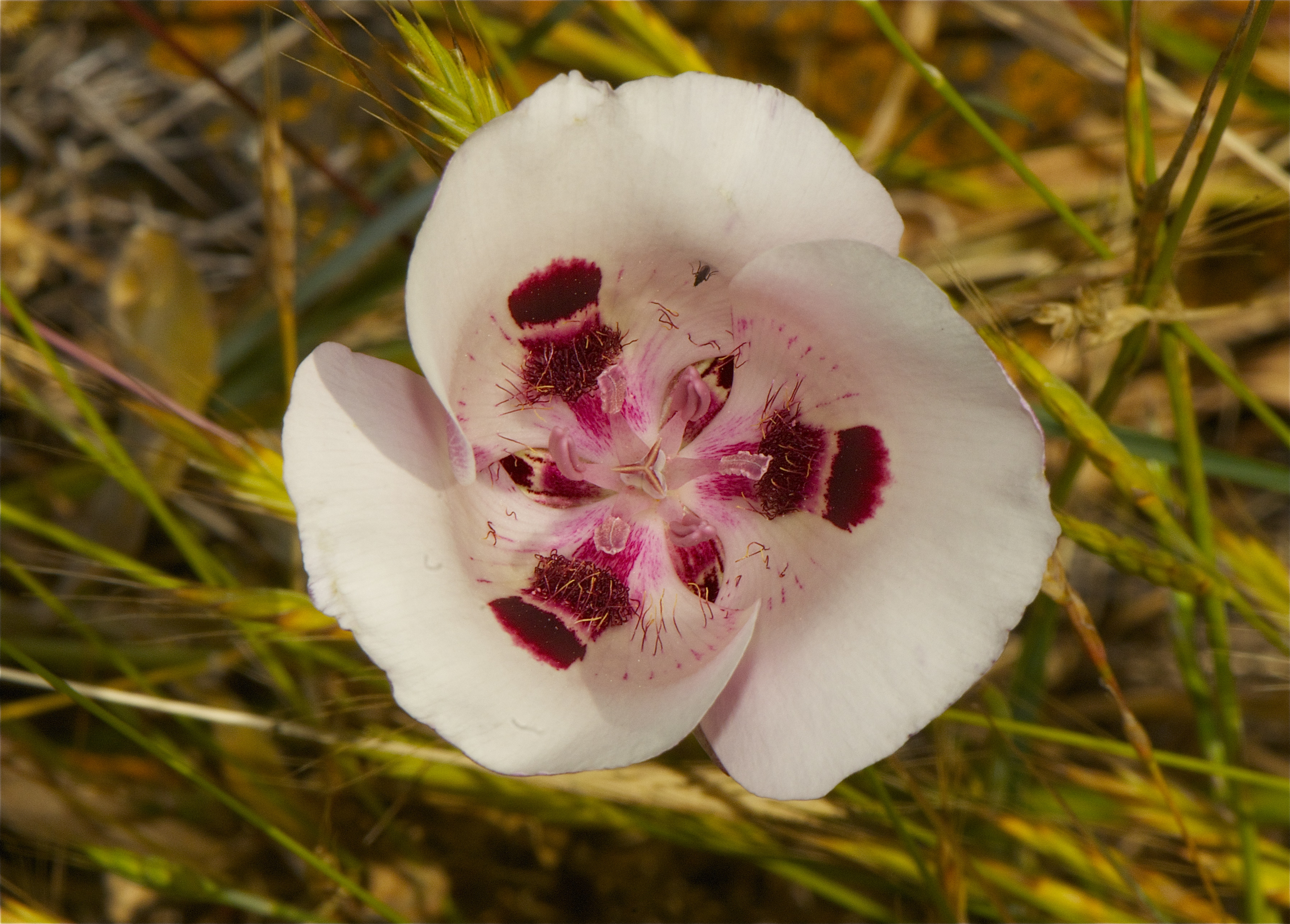 Clay mariposa lily. The red markings guide insect visitors to nectar glands.